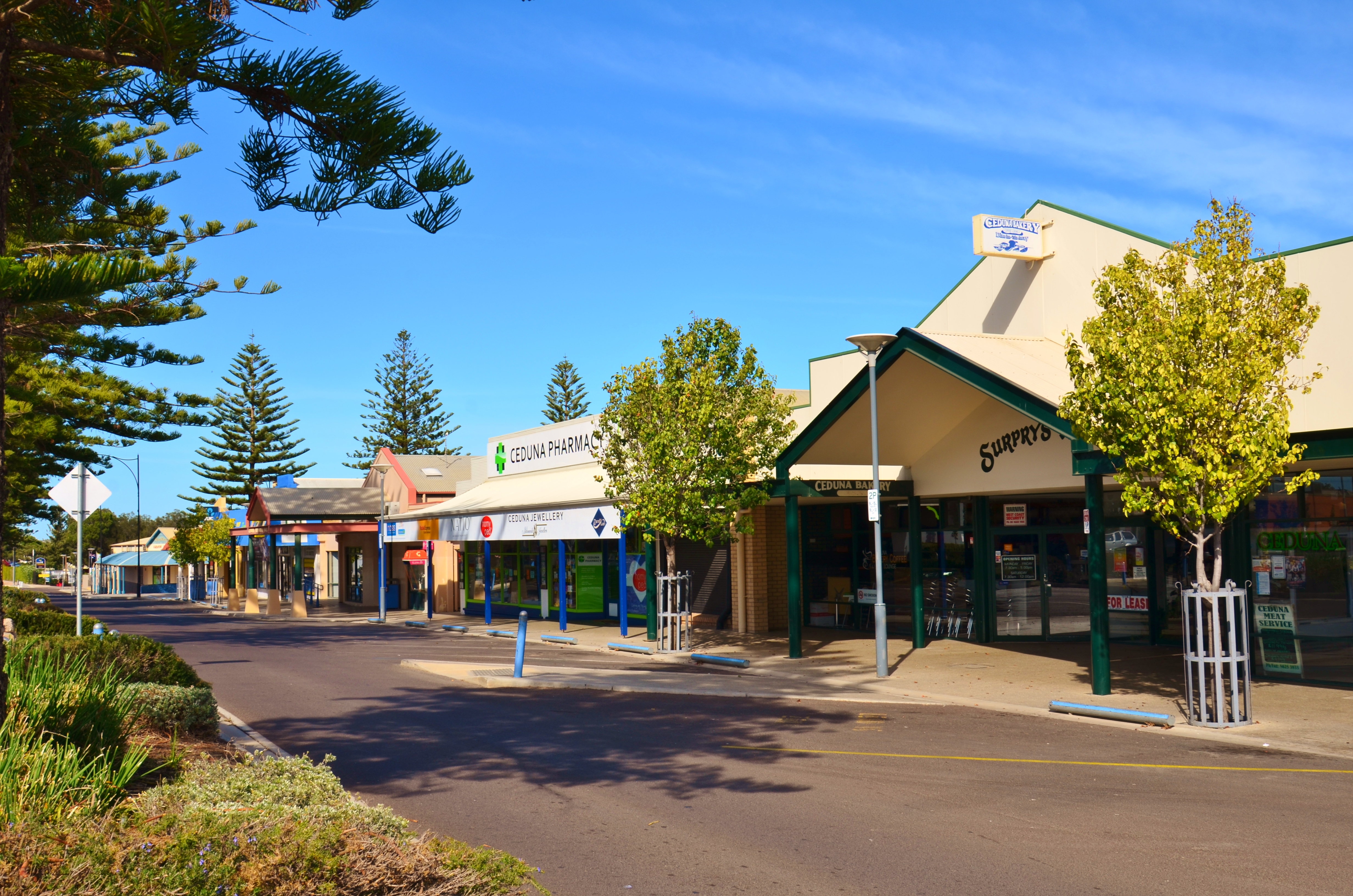 View of Poynton Street, Ceduna, South Australia